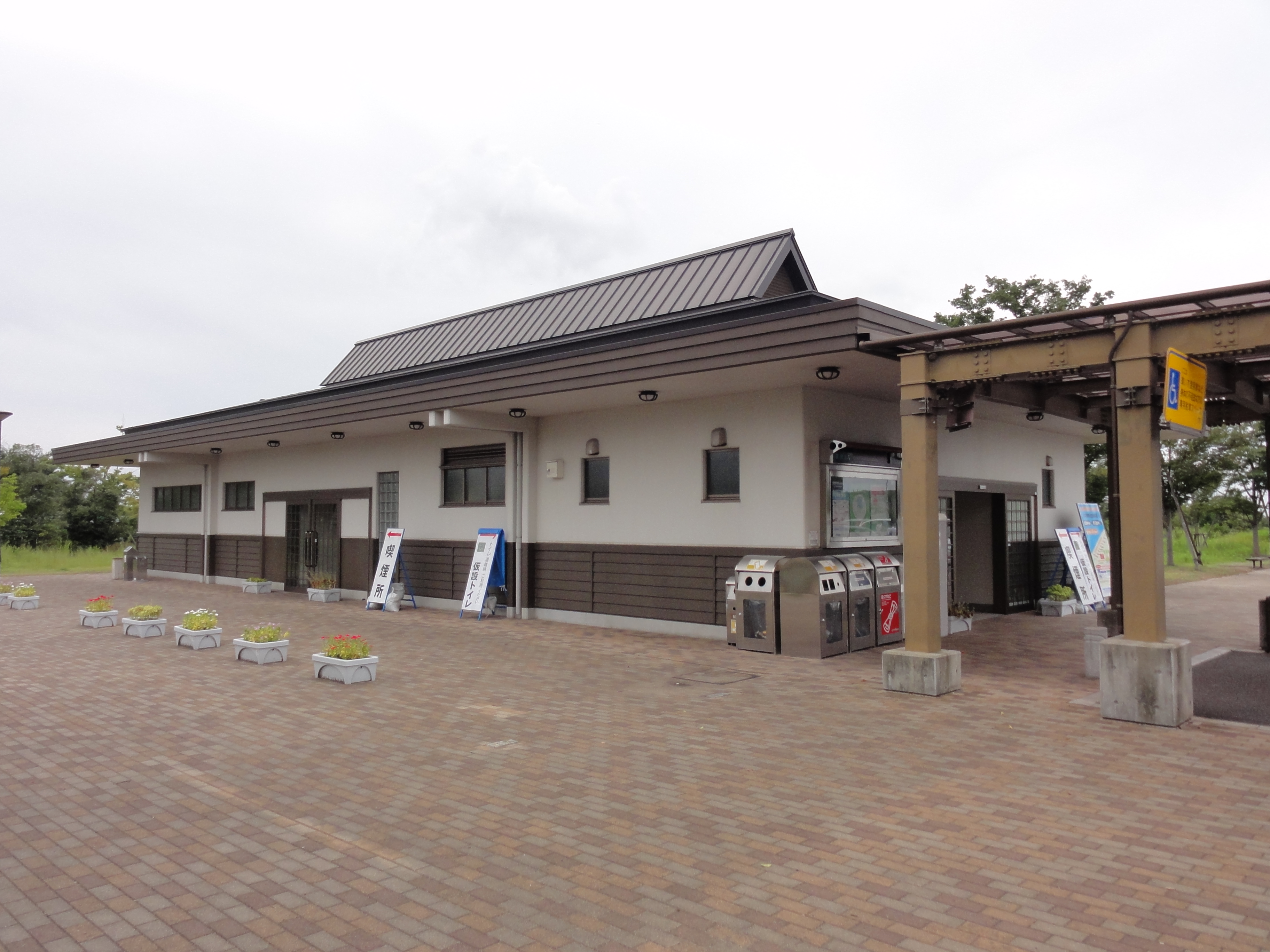 Toyosaka Service Area,Niigata Pref., Japan